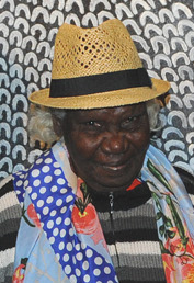 The Governor-General with Ms Lena Nyadbi, Mr Stéphane Martin and Mr Rupert Myer